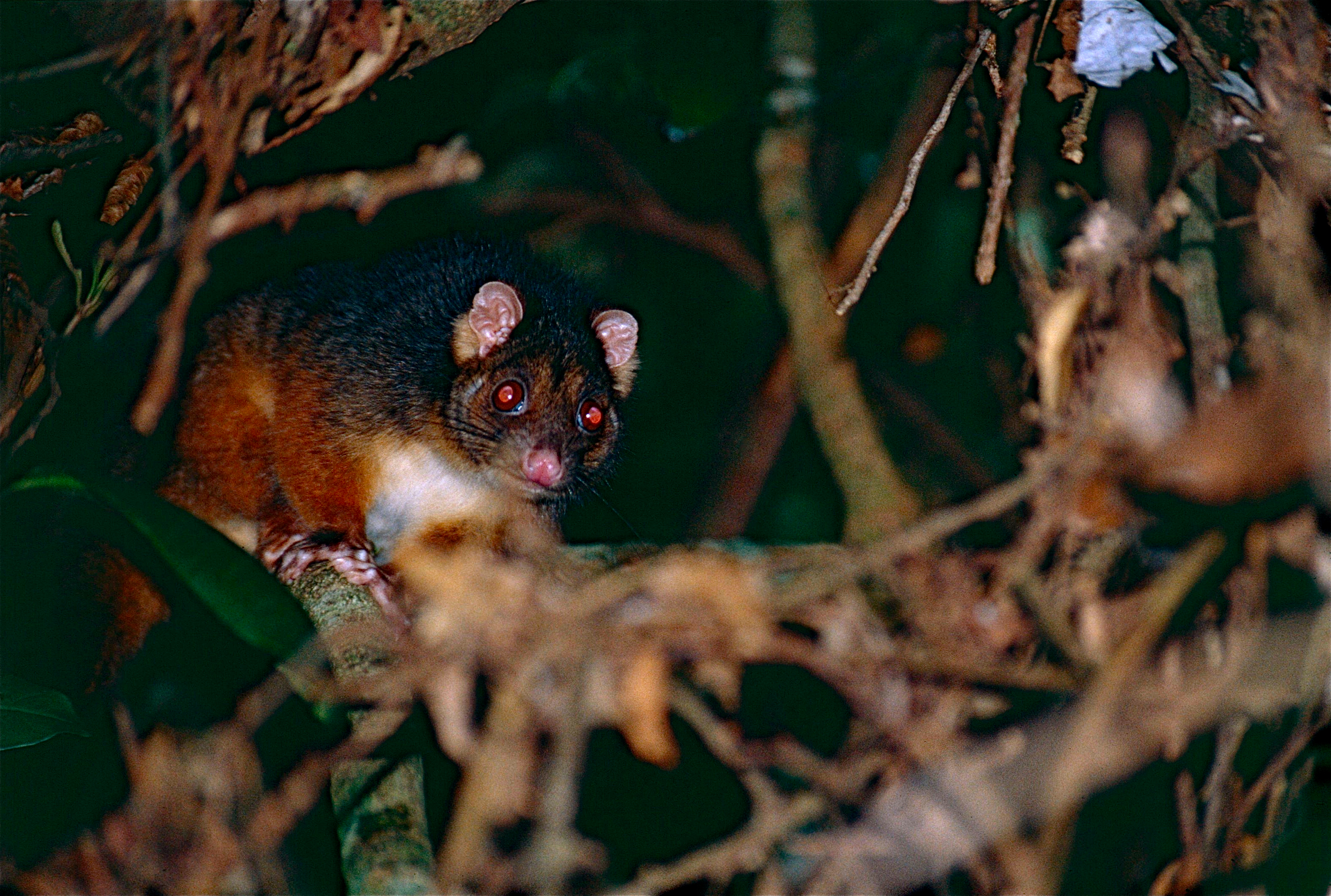 Lamington NP, South Queensland, AUSTRALIA Scanned Slide from Dec 2000